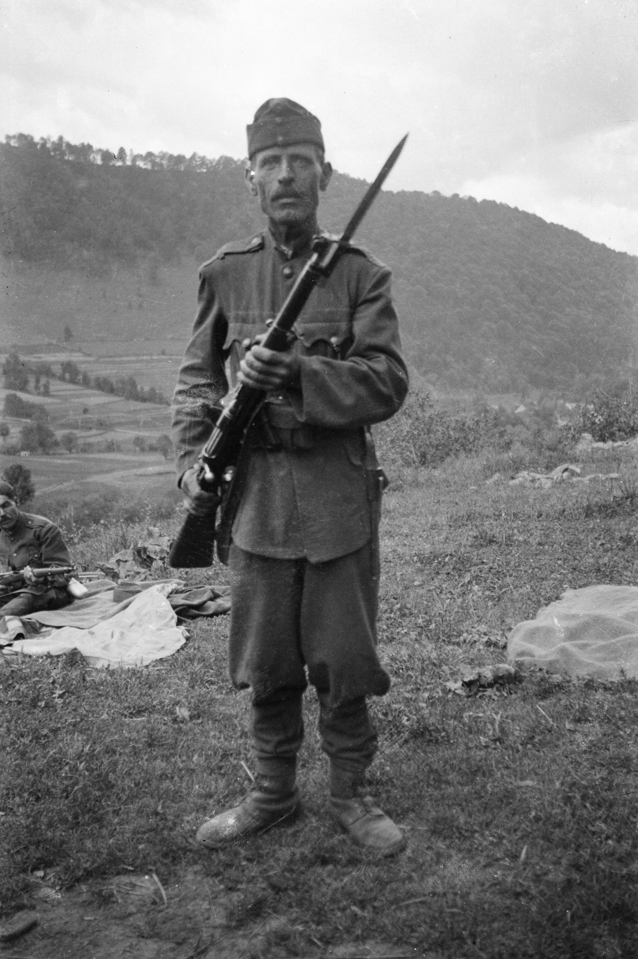 Hungarian soldier in the Carpathian with a Mannlicher M1895 rifle. Village Volosjanka 1940.